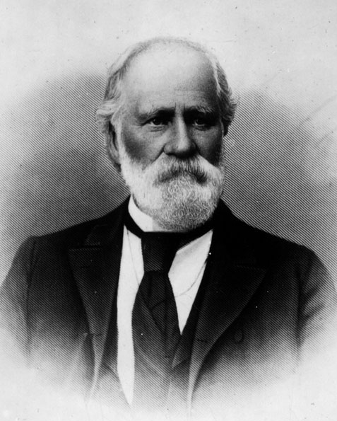 Portrait of Dr. John Strother Griffin, pioneer Los Angeles physician.